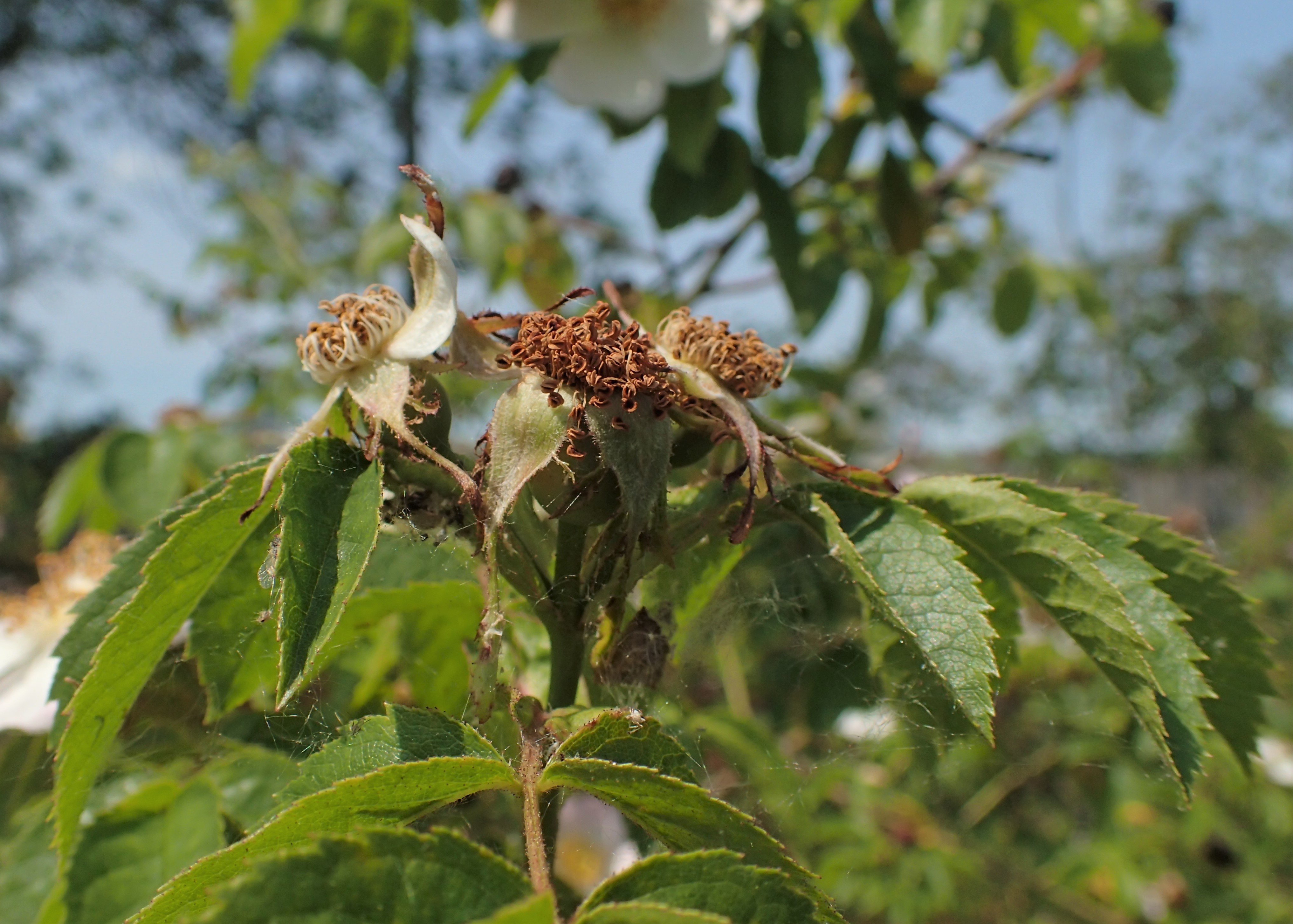 Rosa zalana in the Rosarium Sangerhausen